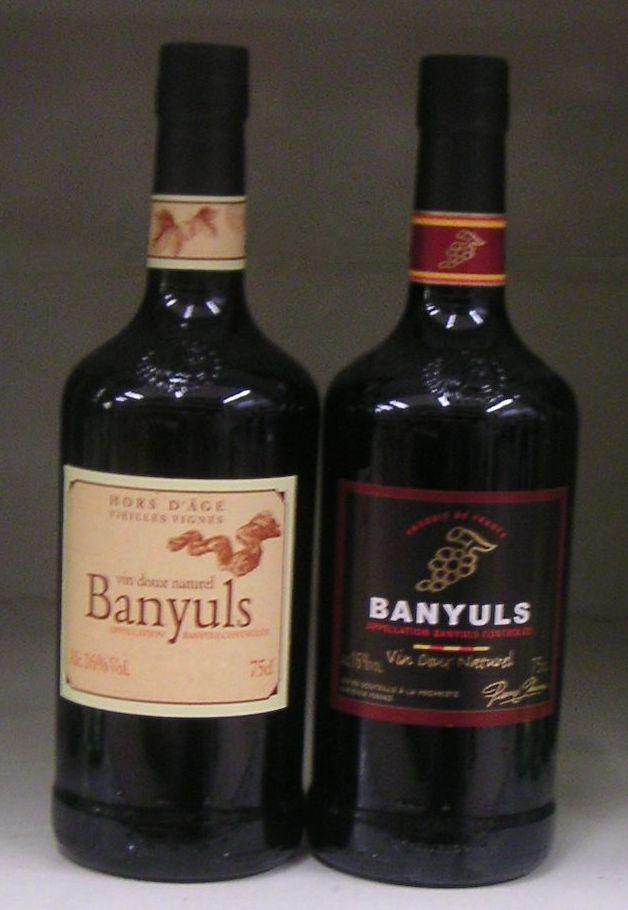 Two different bottles of Banyuls fortified wine.